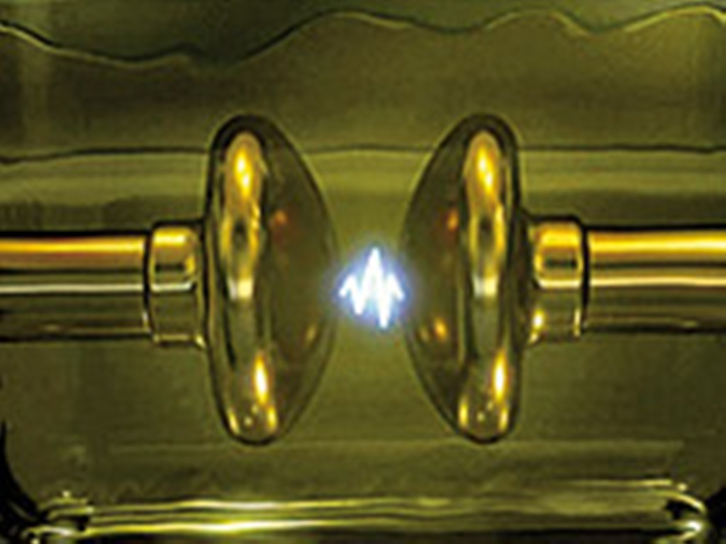 High voltage breakdown in an electric arc during transformer oil testing on a BA75 Oil tester by b2hv!